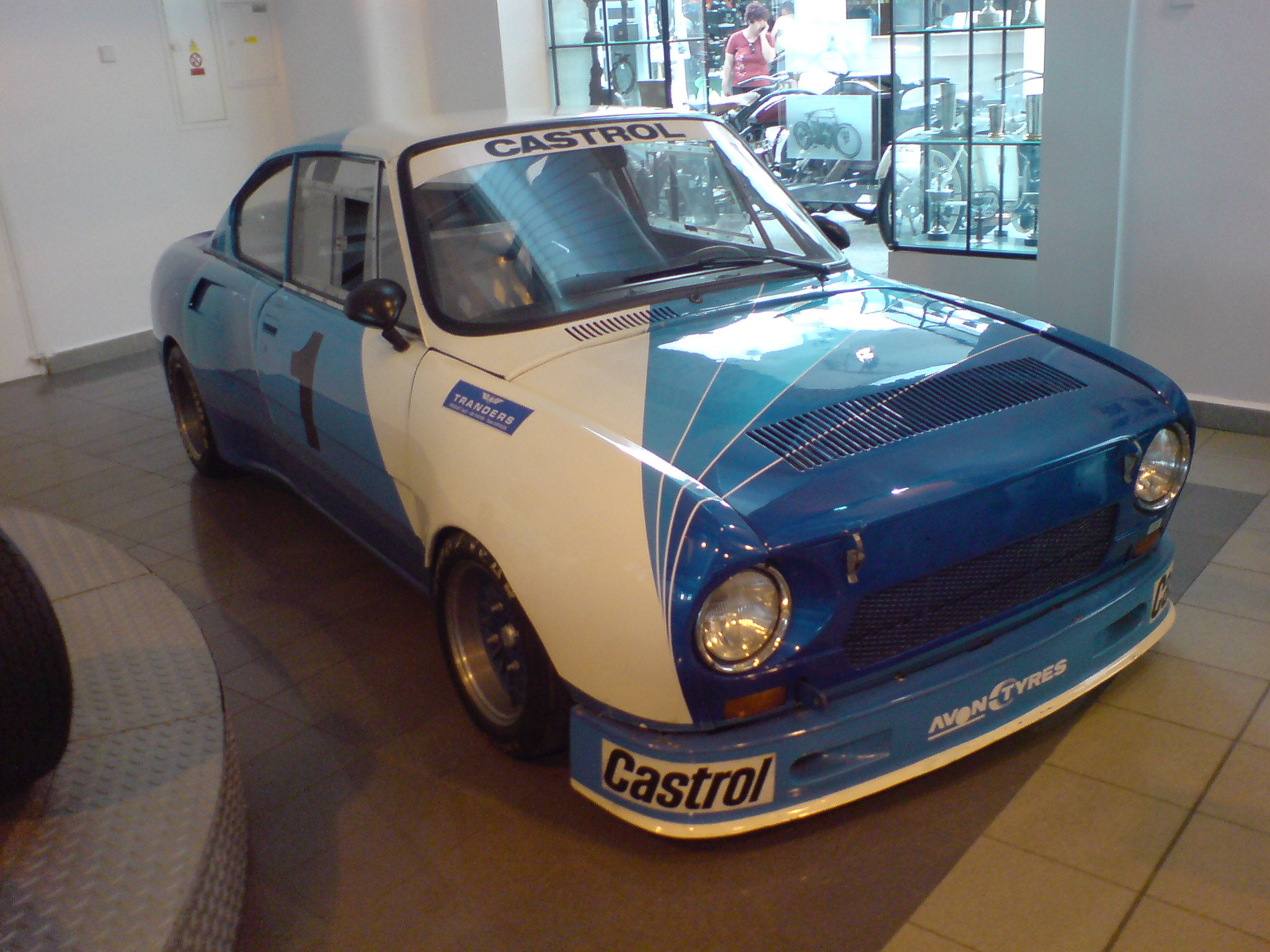 Škoda 130RS in Škoda Museum in Mlada Boleslav.